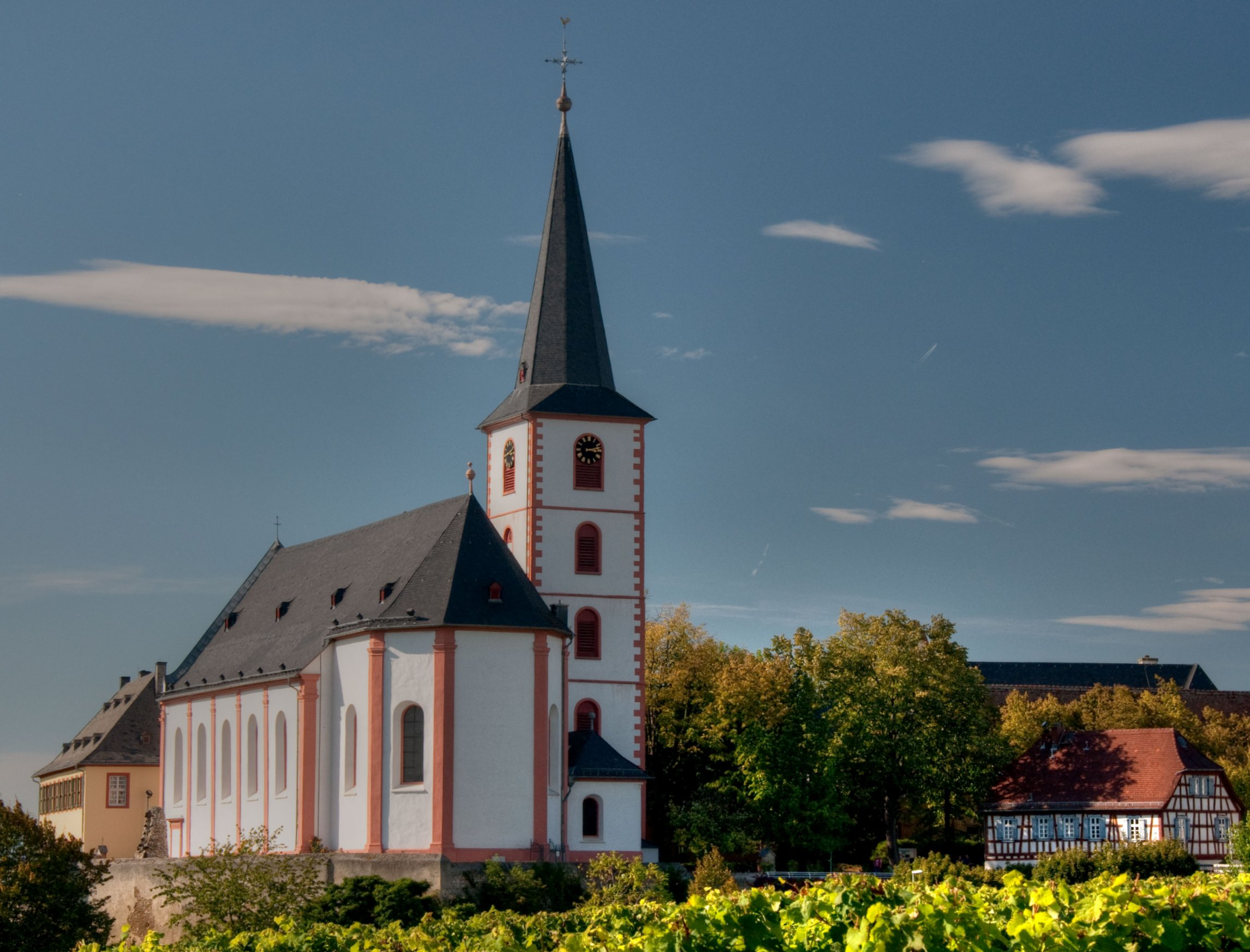 The church at Hochheim in Germany. Hochheim is a small city near Frankfurt.